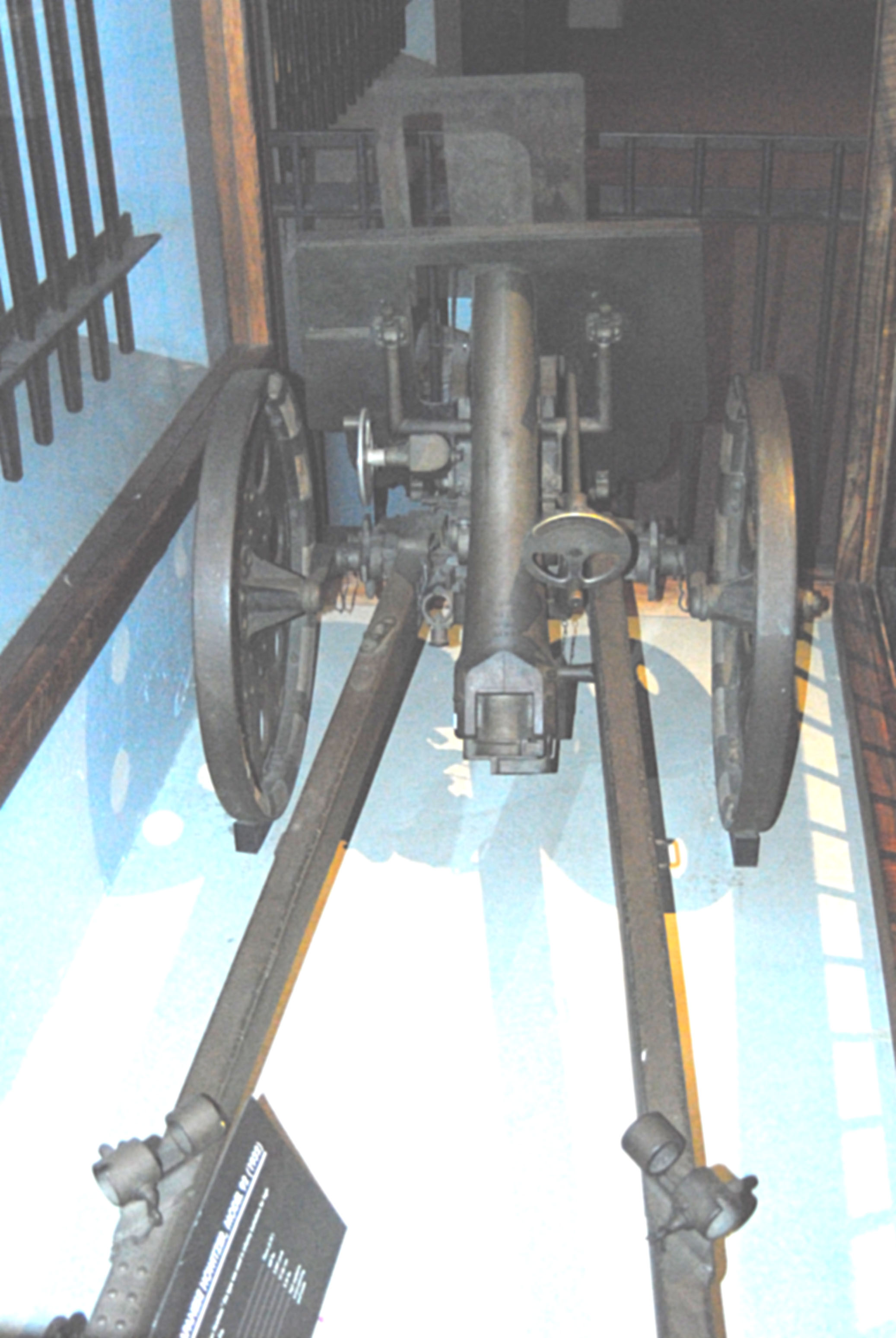 Japanese Type 92 howitzer (1932). A "Battalion Howitzer," this type was used in infantry battalions for high angle support fire. Now on display at Battery Randolf US Army Museum, Honolulu. Other views: Image:Howitzer_Japanese_Model_92-_1932_side_view.jpg Image:Howitzer_Japanese_Model_92-_1932_front_view.jpg